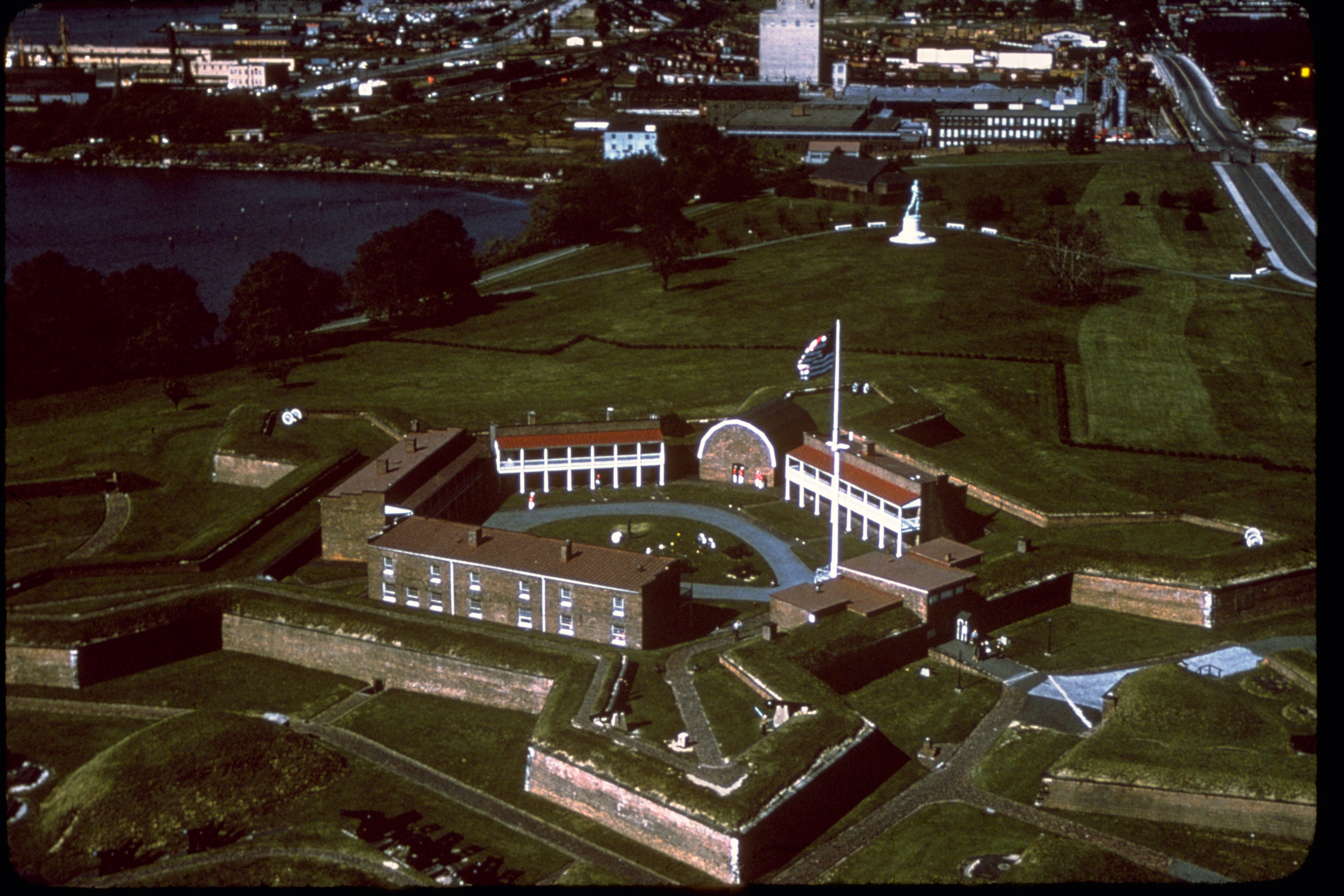 Location Fort McHenry National Monument and Historic Shrine Description “O say can you see, by the dawn’s early light,” a large red, white and blue banner? “Whose broad stripes and bright stars . . . were so gallantly streaming!” over the star-shaped Fort McHenry during the Battle of Baltimore, September 13-14, 1814. The valiant defense of the fort by 1,000 dedicated Americans inspired Francis Scott Key to write “The Star-Spangled Banner.”